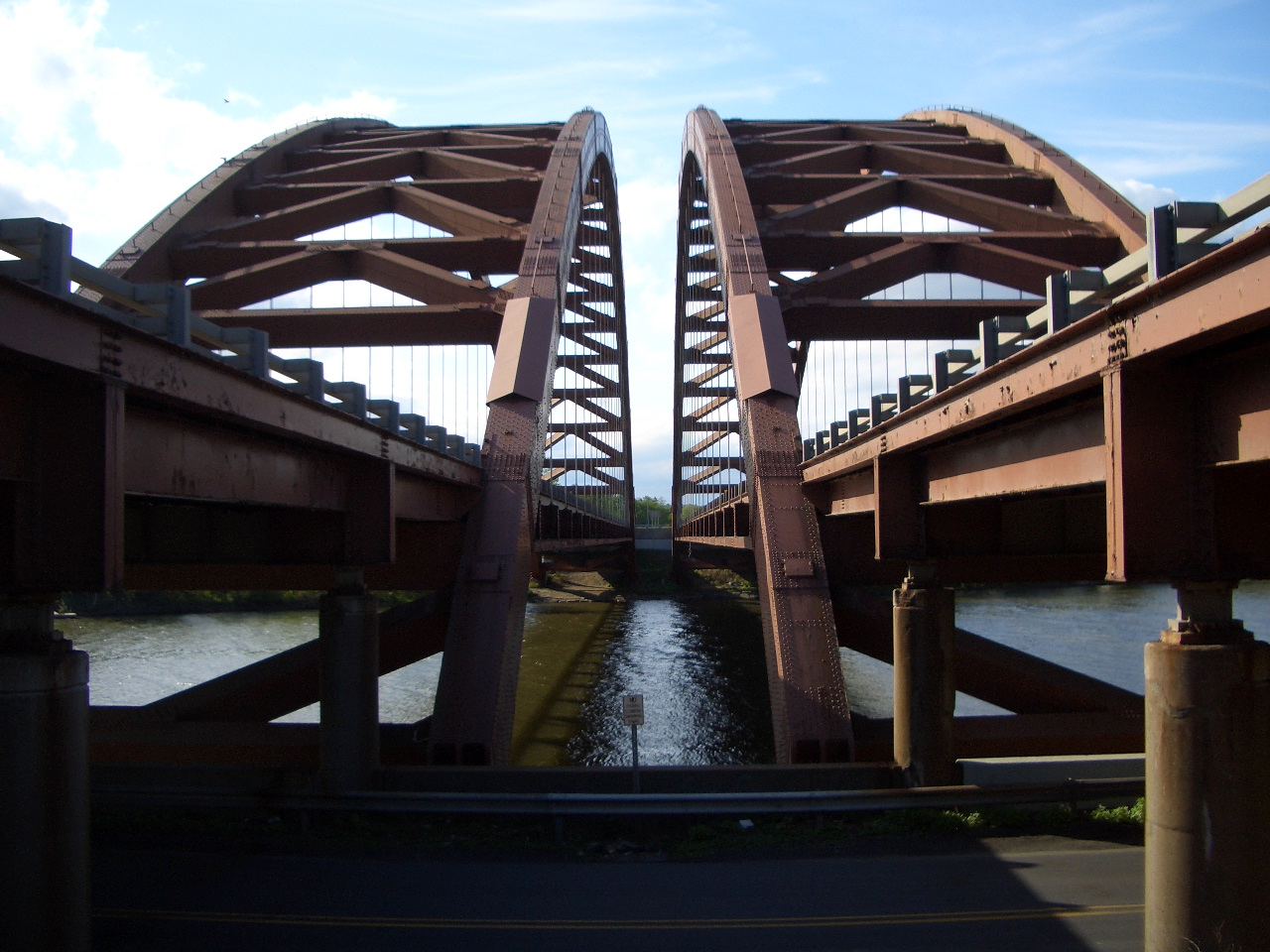 Thaddeus Kosciusko Bridge in color